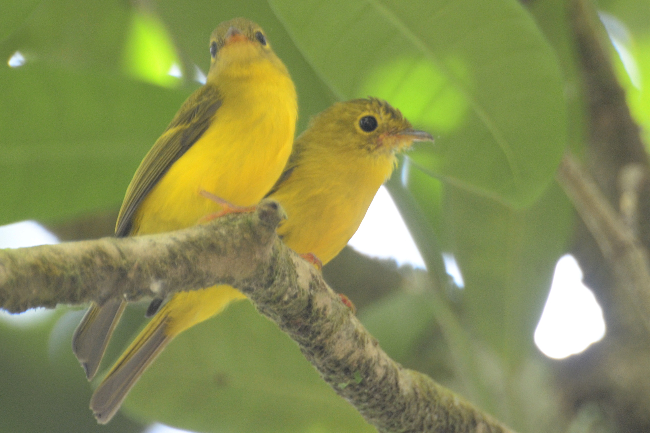 Citrine canary-flycatcher (Culicicapa helianthea) at Mount Mahawu, North Sulawesi